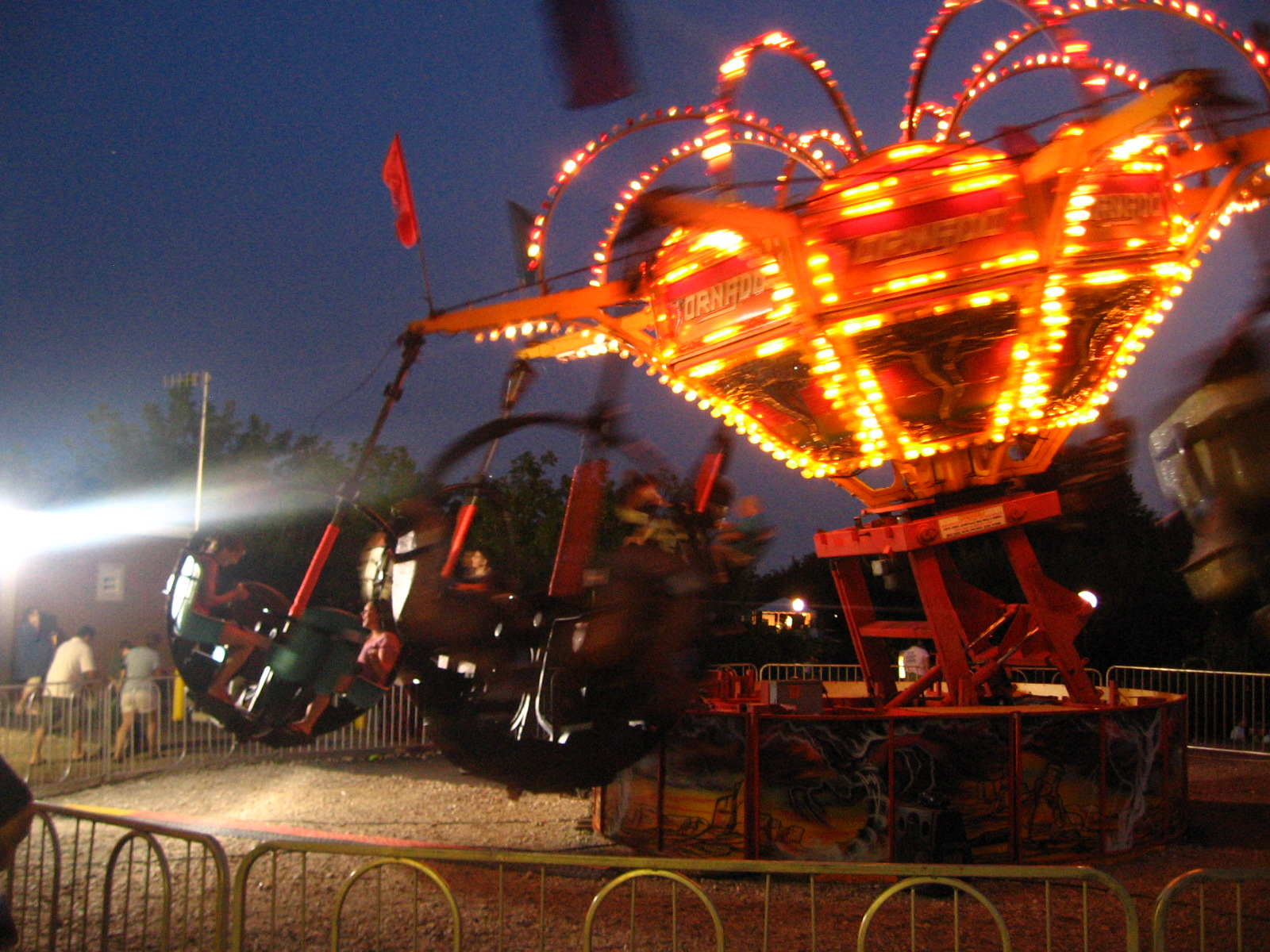 A photograph of the Tornado Carnival Ride at the Great Falls Balloon Festival in Auburn and Lewiston, Maine